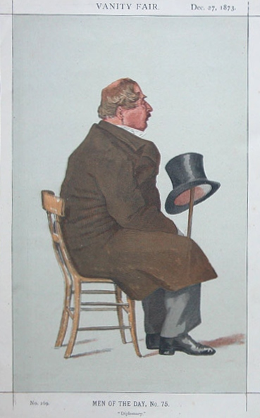 Caricature of Percy William Doyle CB. Caption read "Diplomacy".